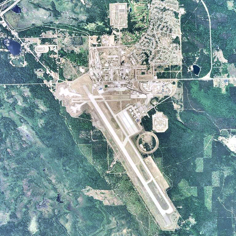 USGS digital orthophoto of Chippewa County International Airport, formerly Kincheloe Air Force Base, in Michigan, United States